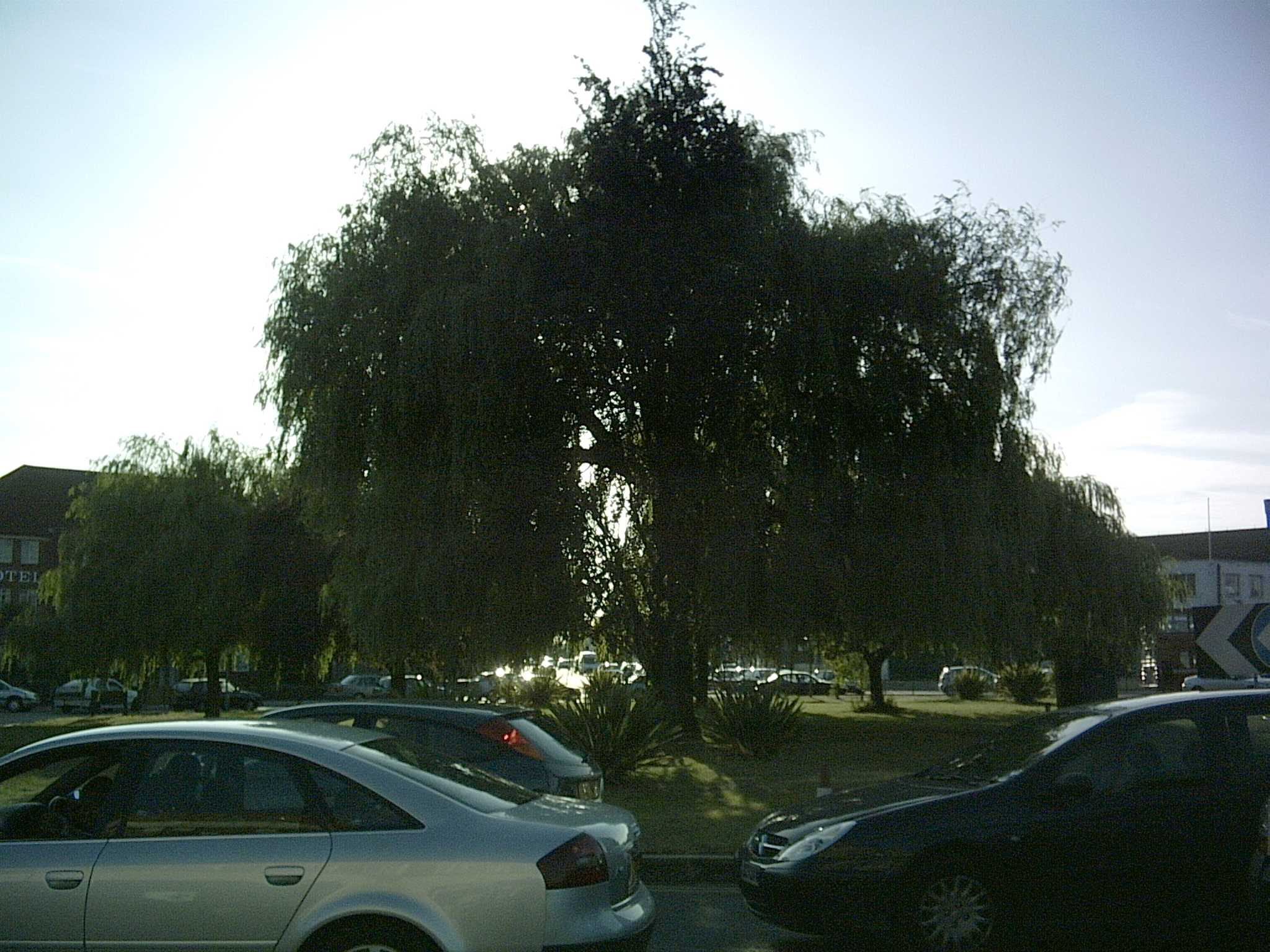 Kingsbury Circle, a large roundabout at the western end of Kingsbury Road